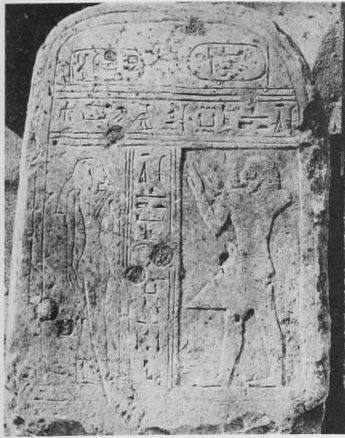 Limestone stele depicting prince Djehuti-Aa and princess Hotepneferu. At the top, the cartouches of pharaoh Sekhemre-khutawy Pantjeny. From Abydos, Second Intermediate Period. British Museum 282 (registr. no. 630).